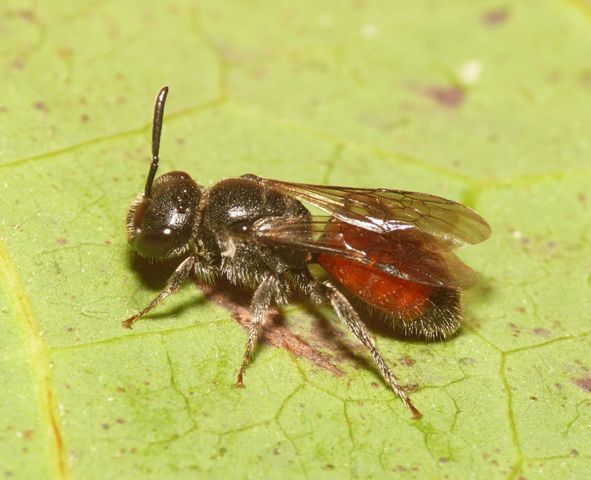 Sphecodes ephippius, female. Location: Rhenen - Blauwe Kamer (The Netherlands)